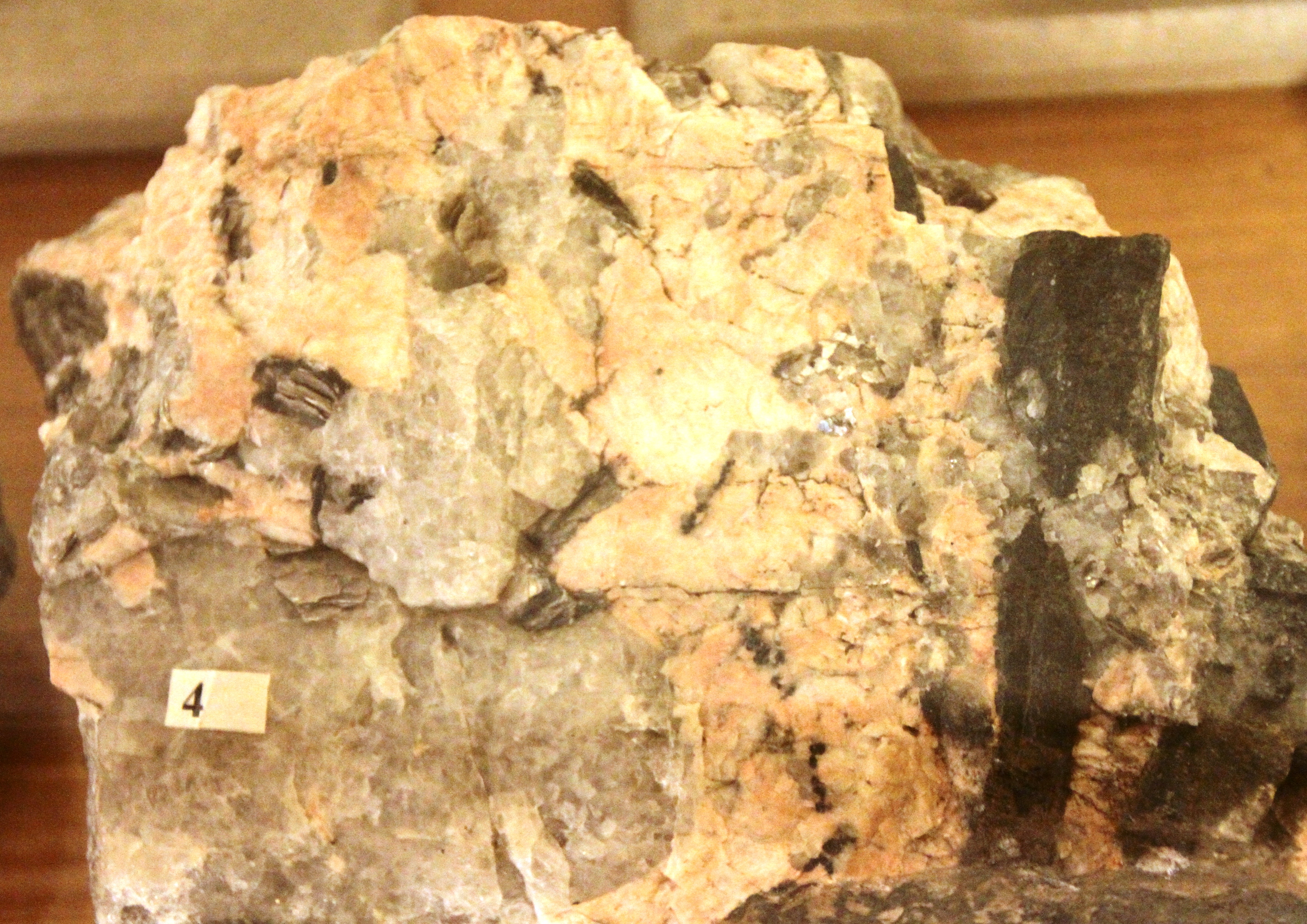 Find of pegmatite from the duvefjorden complex, probably middle Proterozoic. Russian find from Lapponiahalvøya peninsula at the Nordaustlandet island. Exhibit object at Barentsburg Museum, Spitsbergen.